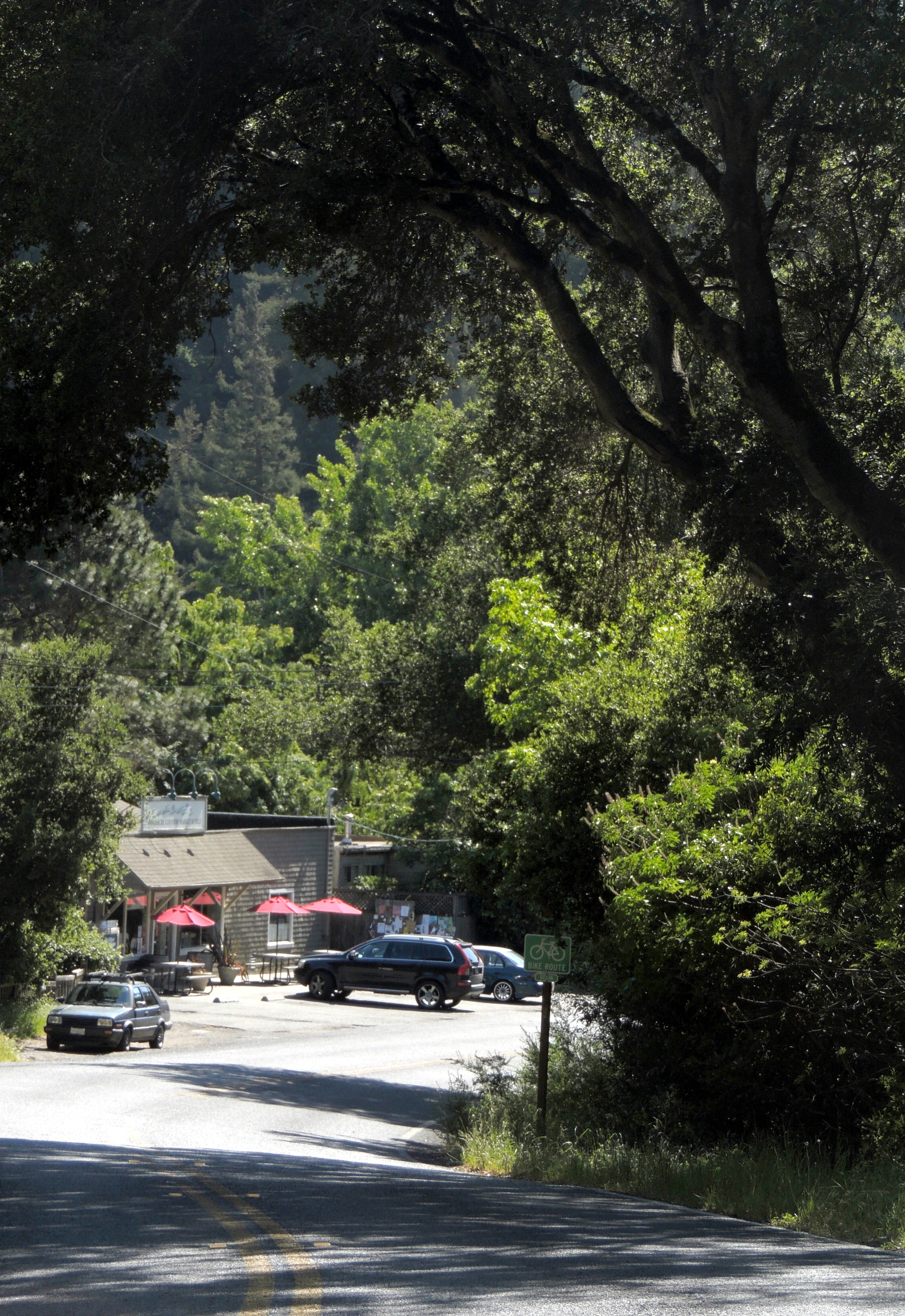 Emerging from the redwoods at the east side of Woodacre, Marin County, along San Geronimo Valley Drive. The building is the Woodacre Market and Deli.